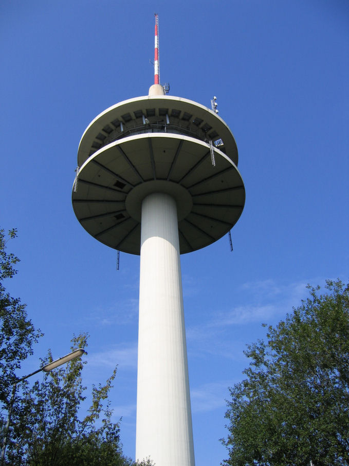 Type 11 broadcast tower on Weisser Stein near Dossenheim